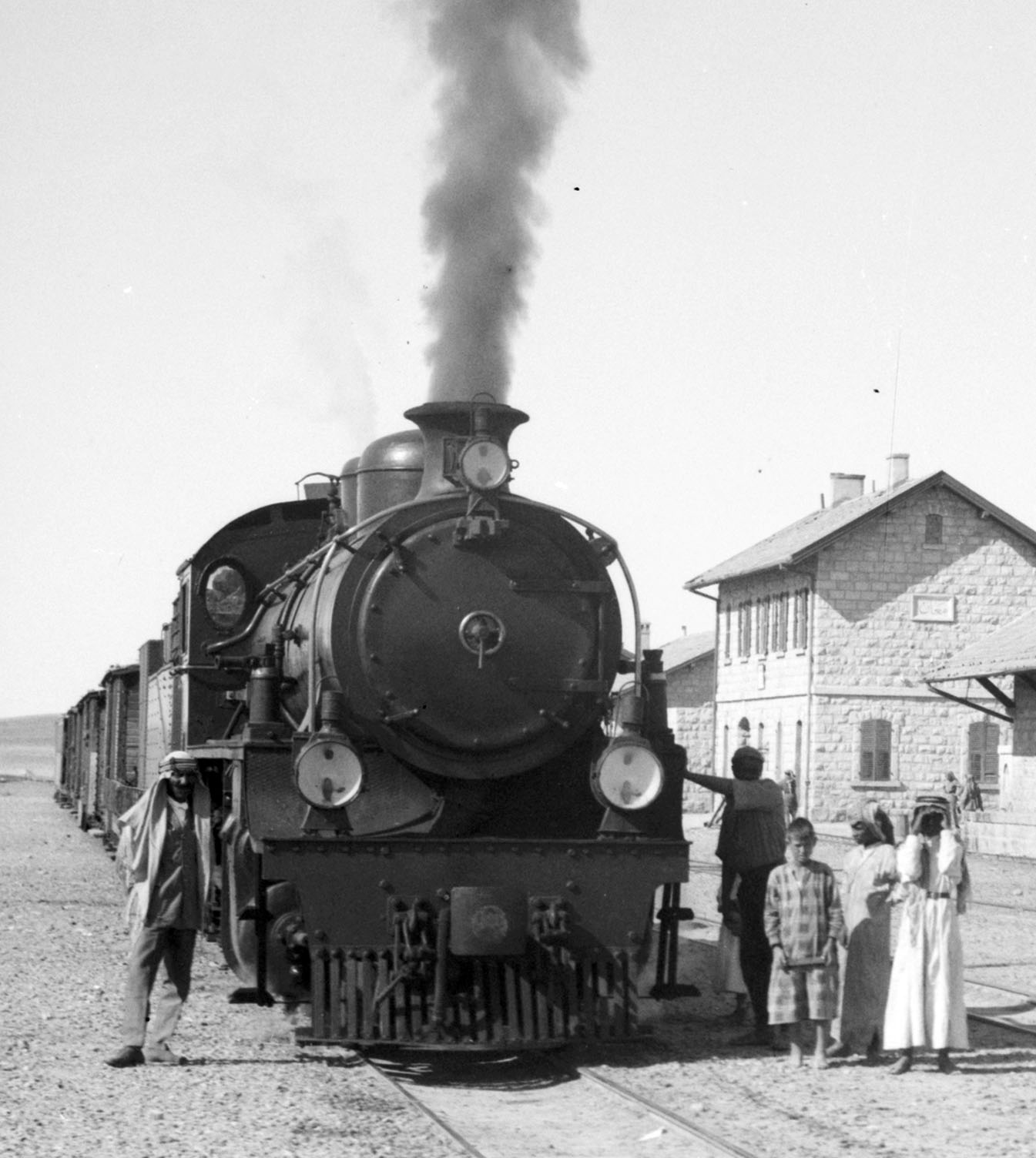 Narrow-gauge (1050 mm) steam locomotive of the Transjordanian Railways at el-Ma'an near Petra, Jordan, pre 1920. Crop from a stereogram original.